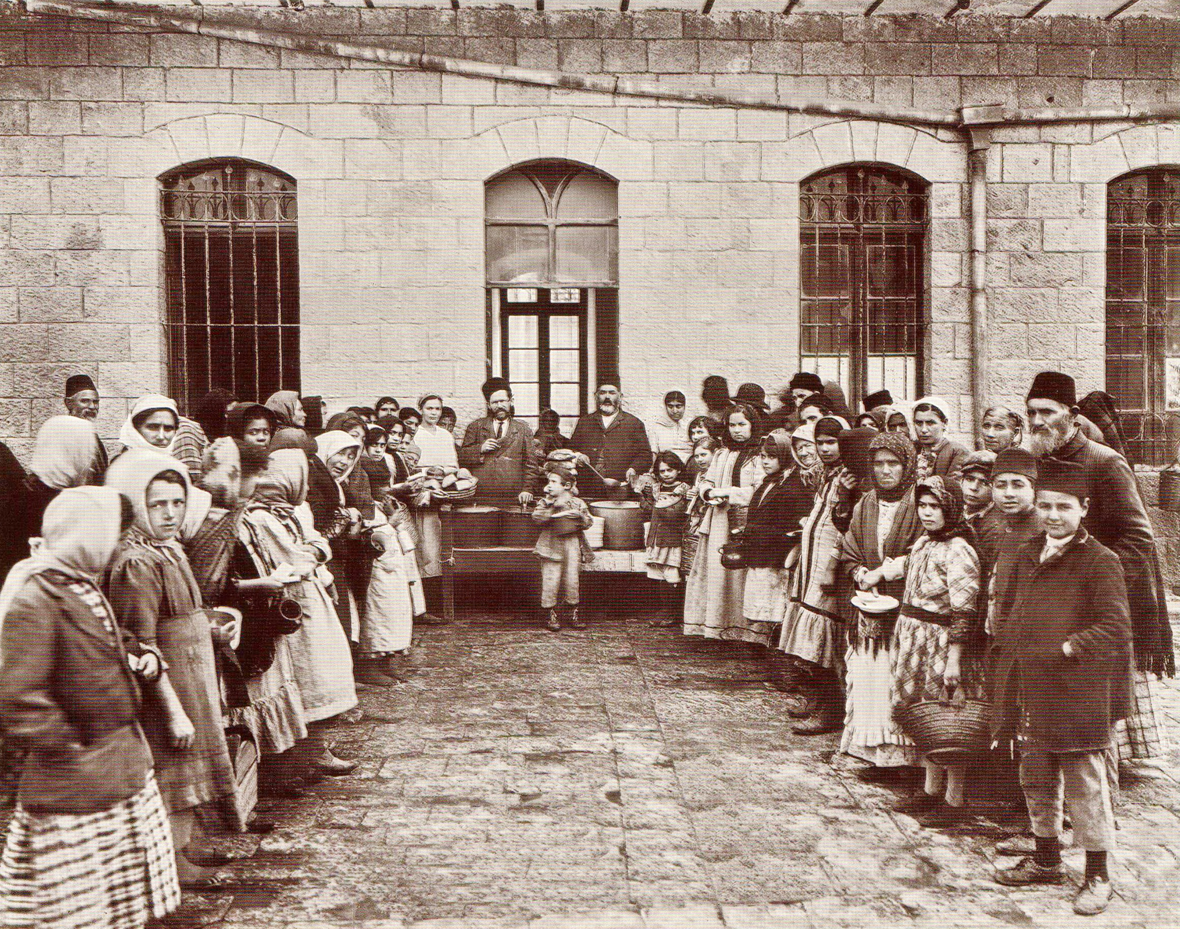 Soup Kitchen 1920